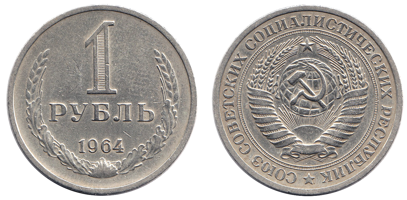 USSR one Ruble coin (1961-67 style) Coin Digital Image